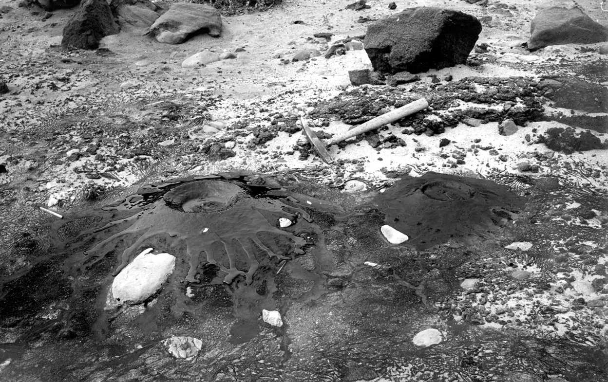 A tar volcano in the Carpinteria Asphalt mine, showing how oil exudes from joint cracks in the upturned Monterey shale forming the floor of mine. Santa Barbara County, California. October 16, 1906. Plate 3-A in U.S. Geological Survey. Bulletin 321. 1907. Image file: /htmllib/btch347/btch347j/btch347z/arn00533.jpg